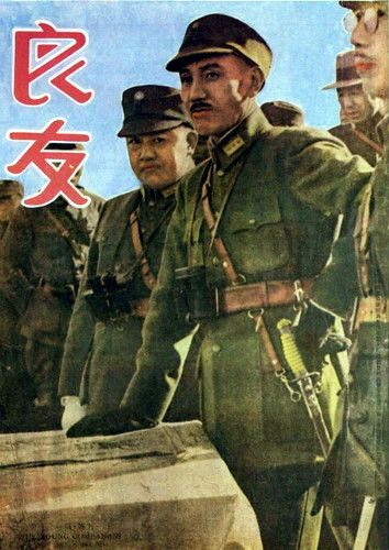 Liangyou Pictorial No. 131 cover - Chairman of the Military Commission, Chiang Kai-shek. No issues for August, September, October 1937.